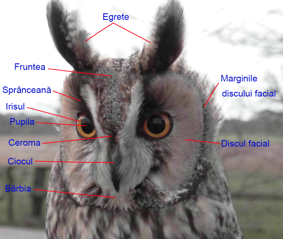 Head of Asio otus